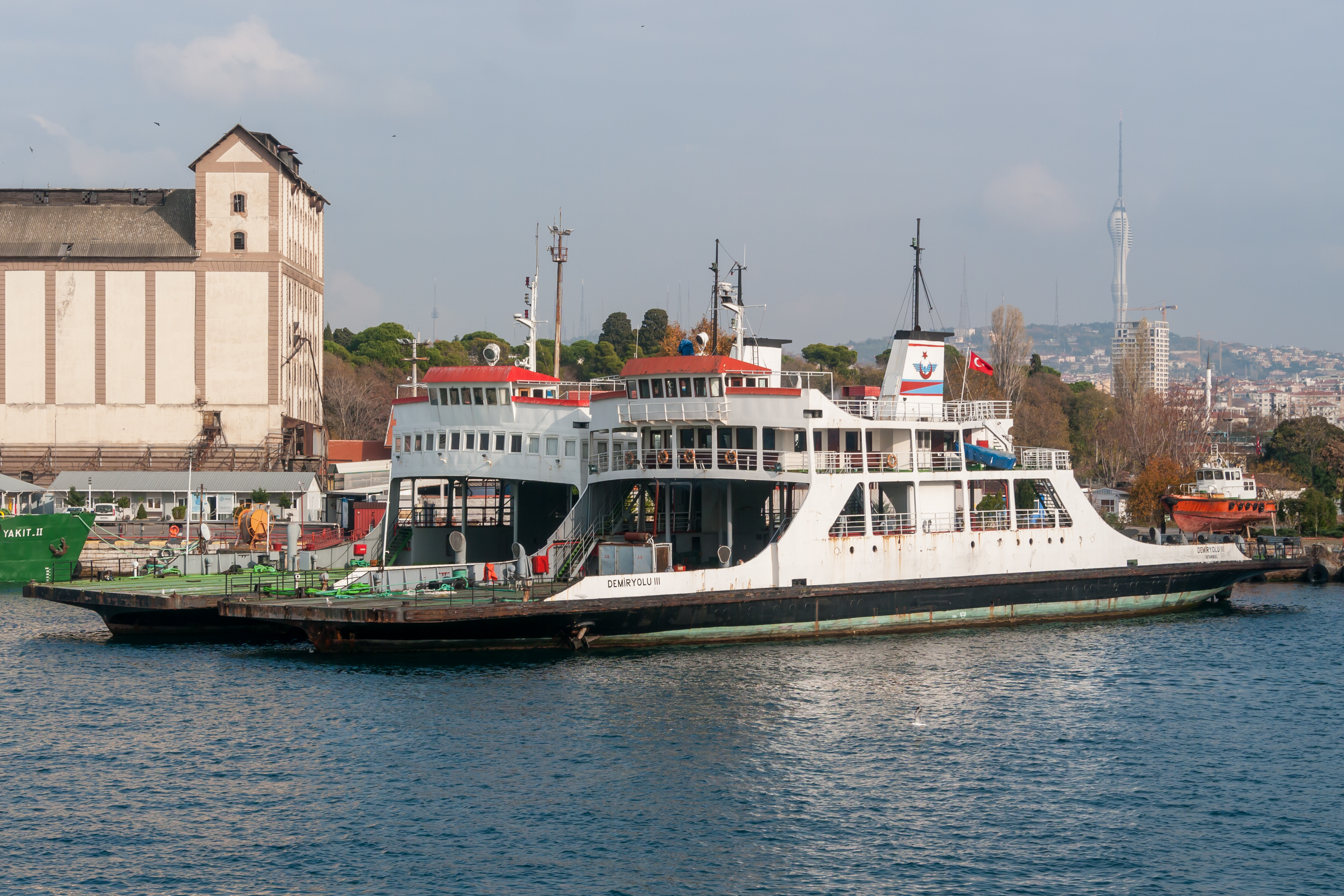 Train ferries Demiryolu III and Demirolu II in the Port of Haydarpasa, Istanbul